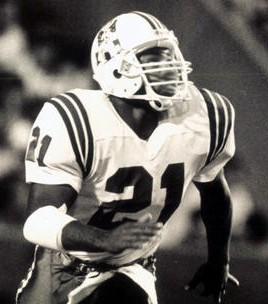 New England Patriots' running back Reggie Dupard during an National Football League game circa 1987.